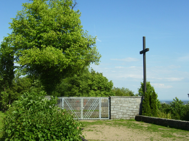 War Memorial (built 1930) in the borrough Seckbach of Frankfurt, Hesse, Germany